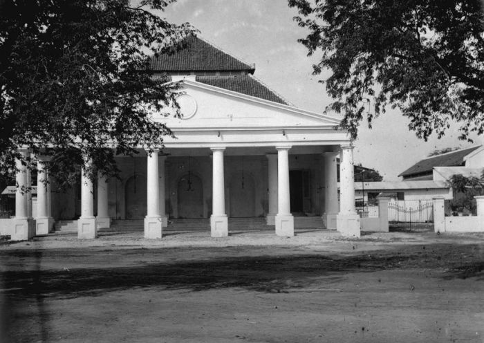 The 'Komediegebouw' theatre